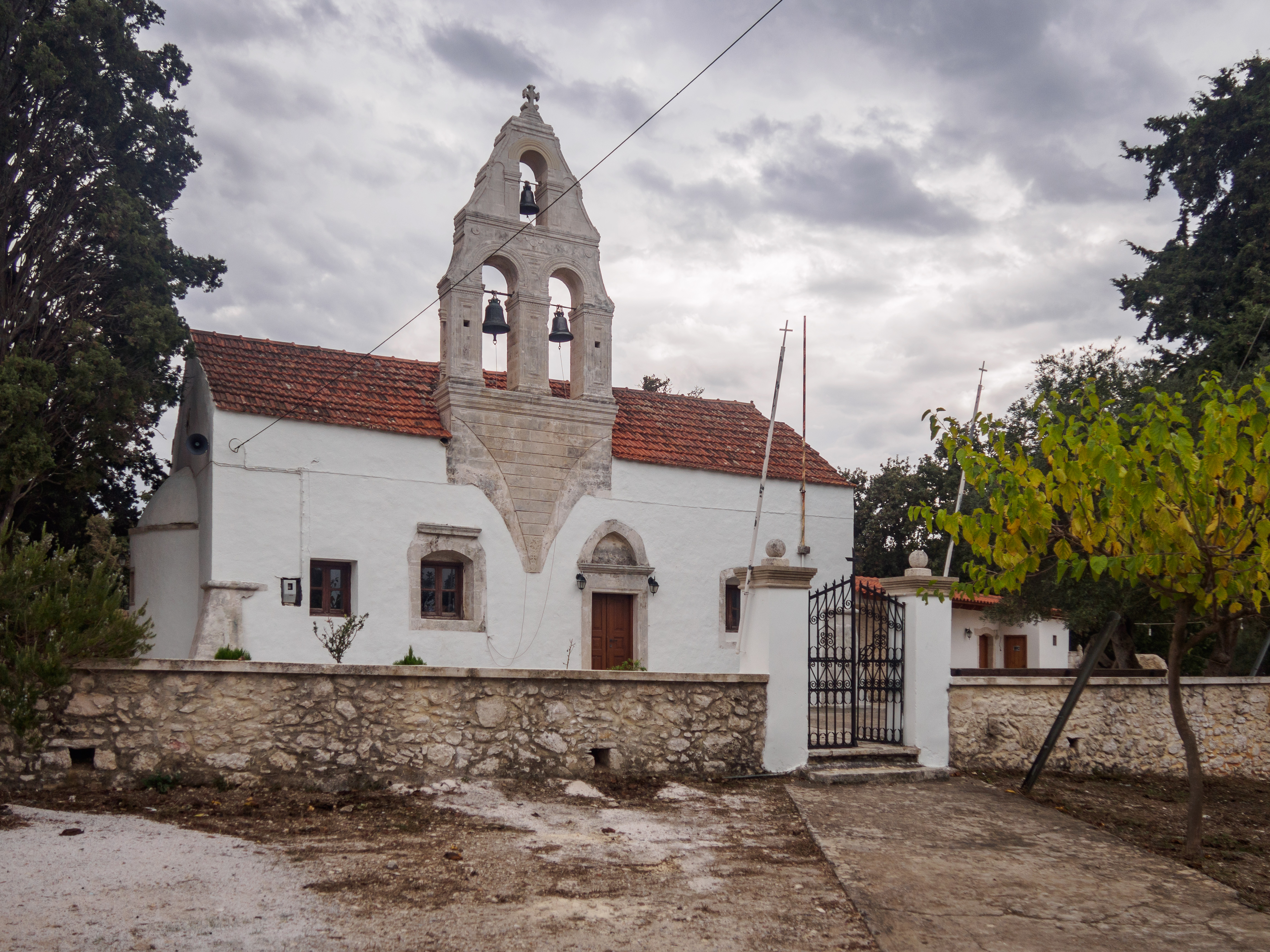 The 1833 church of Saint John Baptist in Vederi, Rethymno.